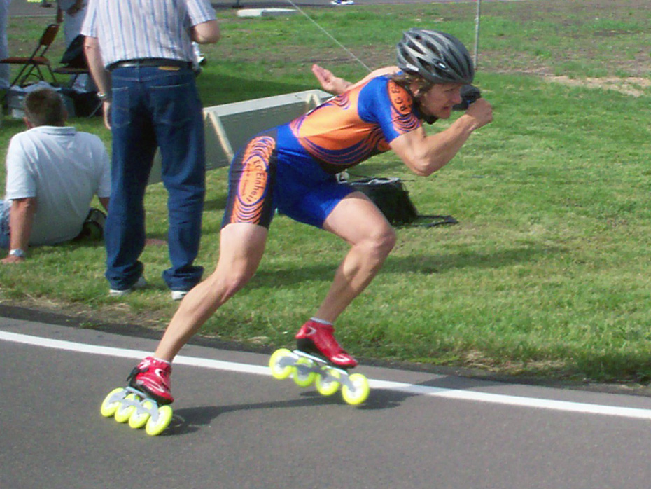 Toni Deubner (GER) at the 300 meter time trail, German inline speedskating track championchip 2007.